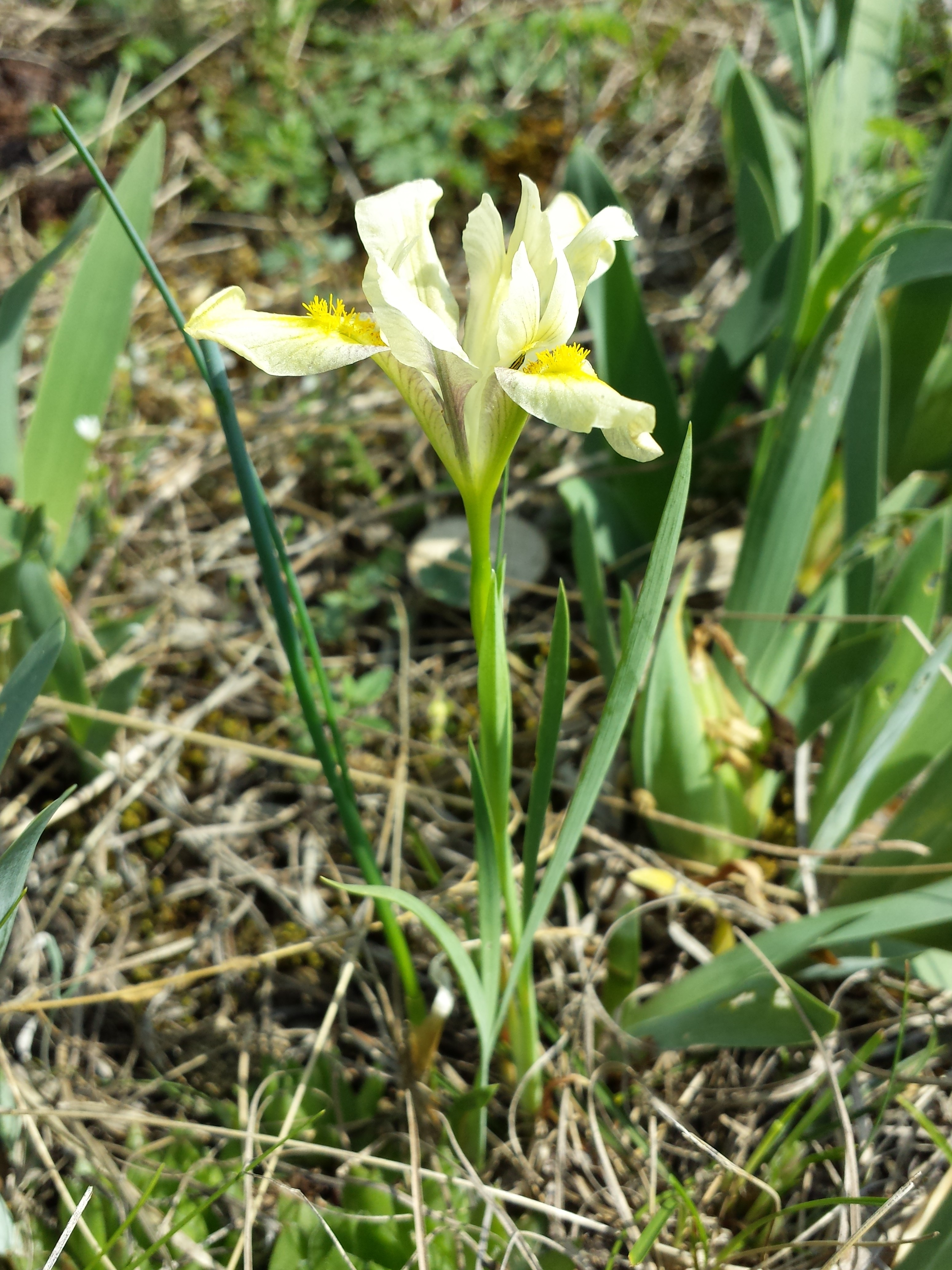 Habitus (the wider leaves which can be seen as well belong to Iris pumila!) Taxon: Iris humilis subsp. arenaria (sensu Fischer et al. EfÖLS 2008 ISBN 978-3-85474-187-9) Location: Svatý kopeček, Mikulov, Jihomoravský kraj, Czech Republic - 363 m a.s.l. Habitat: rock steppe (lime rock)